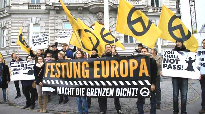 Far-right activists at an Identitarian Movement of Austria anti-immigration rally in Vienna. The German-language signs read "Fortress Europe", "Close the Borders Now!", "My Home is Not an Immigrant Country", and "Europe, Youth, Reconquista".